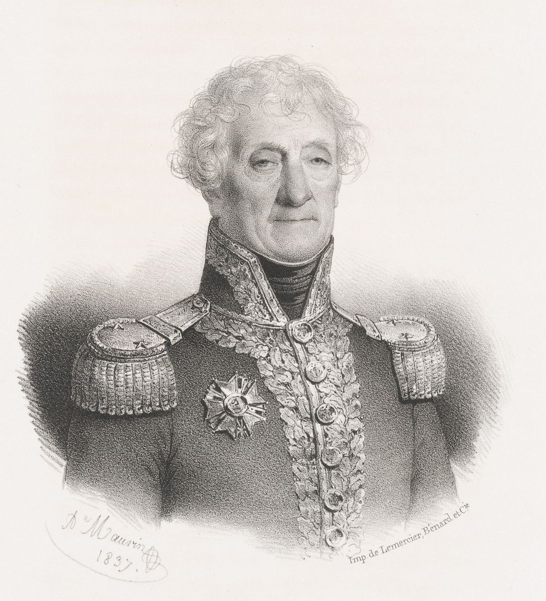 Portrait of Rear-Admiral Jacques Félix Emmanuel Hamelin, by Antoine Maurin